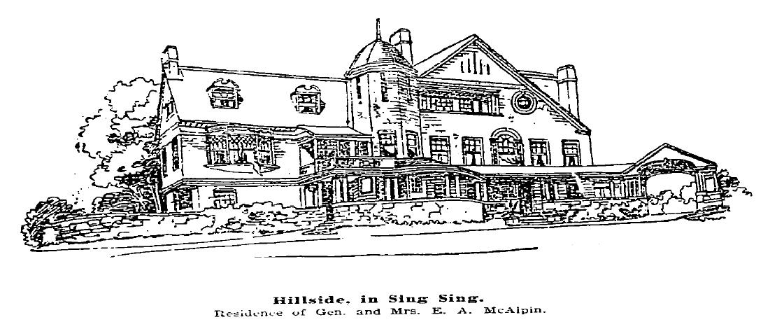 Line drawing of "Hillside House" in Ossining, New York, the home of General Edwin A McAlpin, Adjutant General of the New York under Governor Morton, commander of the 71st Regiment of the New York Militia, (Later the New York Guard). McAlpin was involved in the tobacco industry and was a prominent activist in the Republican Party in New York.